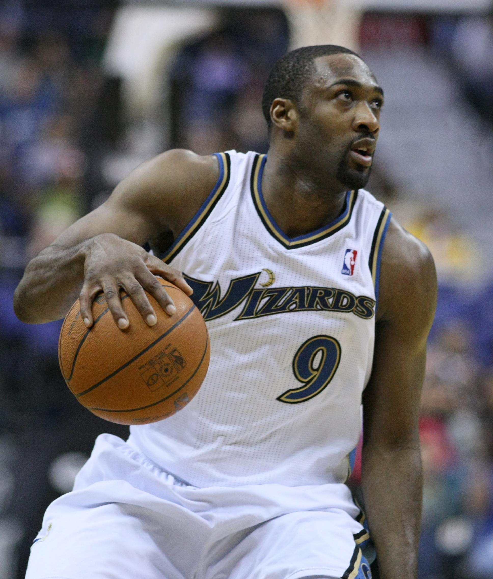 Washington Wizards v/s Philadelphia 76ers November 23, 2010